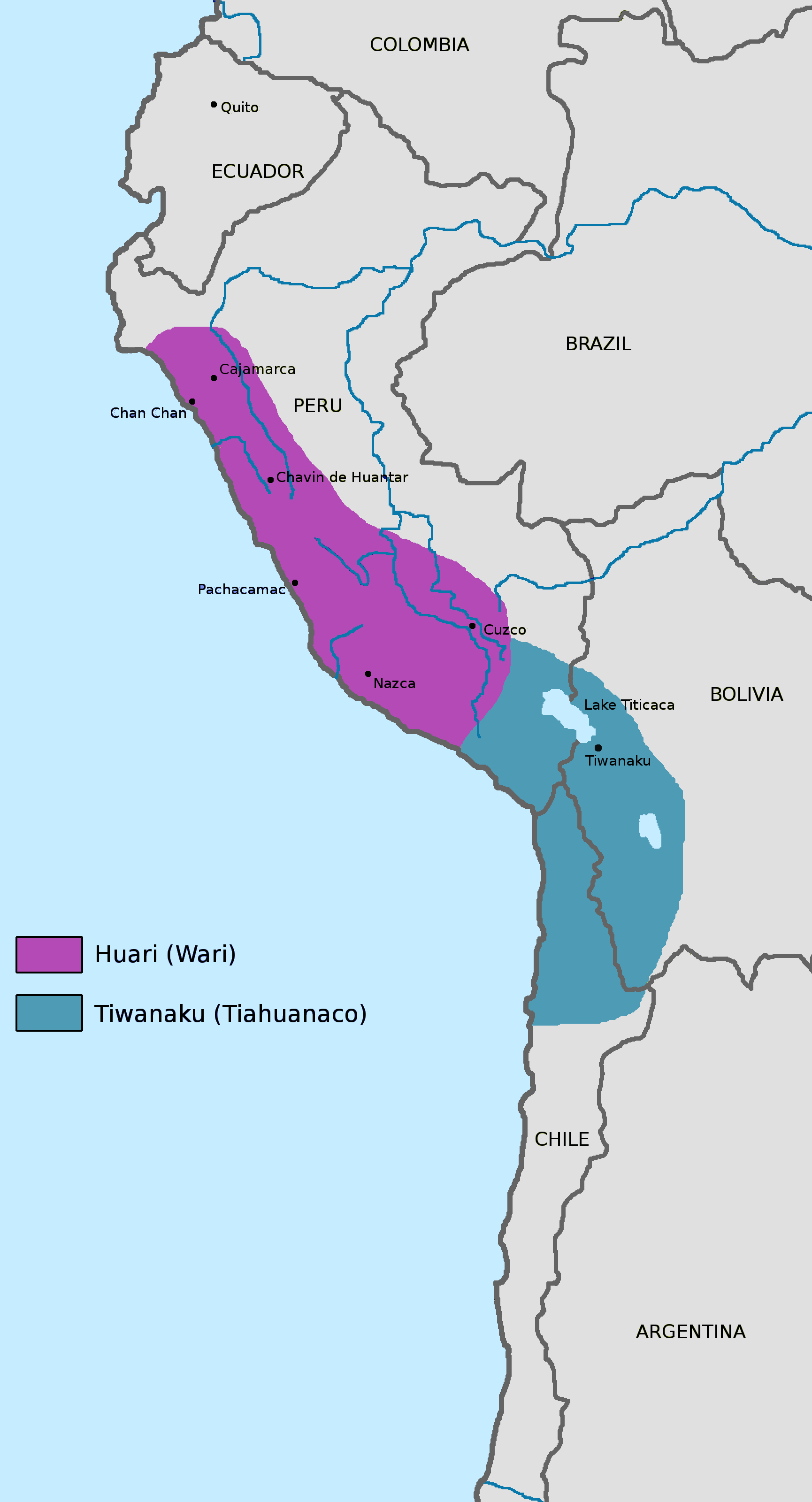 Expansion area of influence of the Wari (Huari) and Tiawaku cultures.